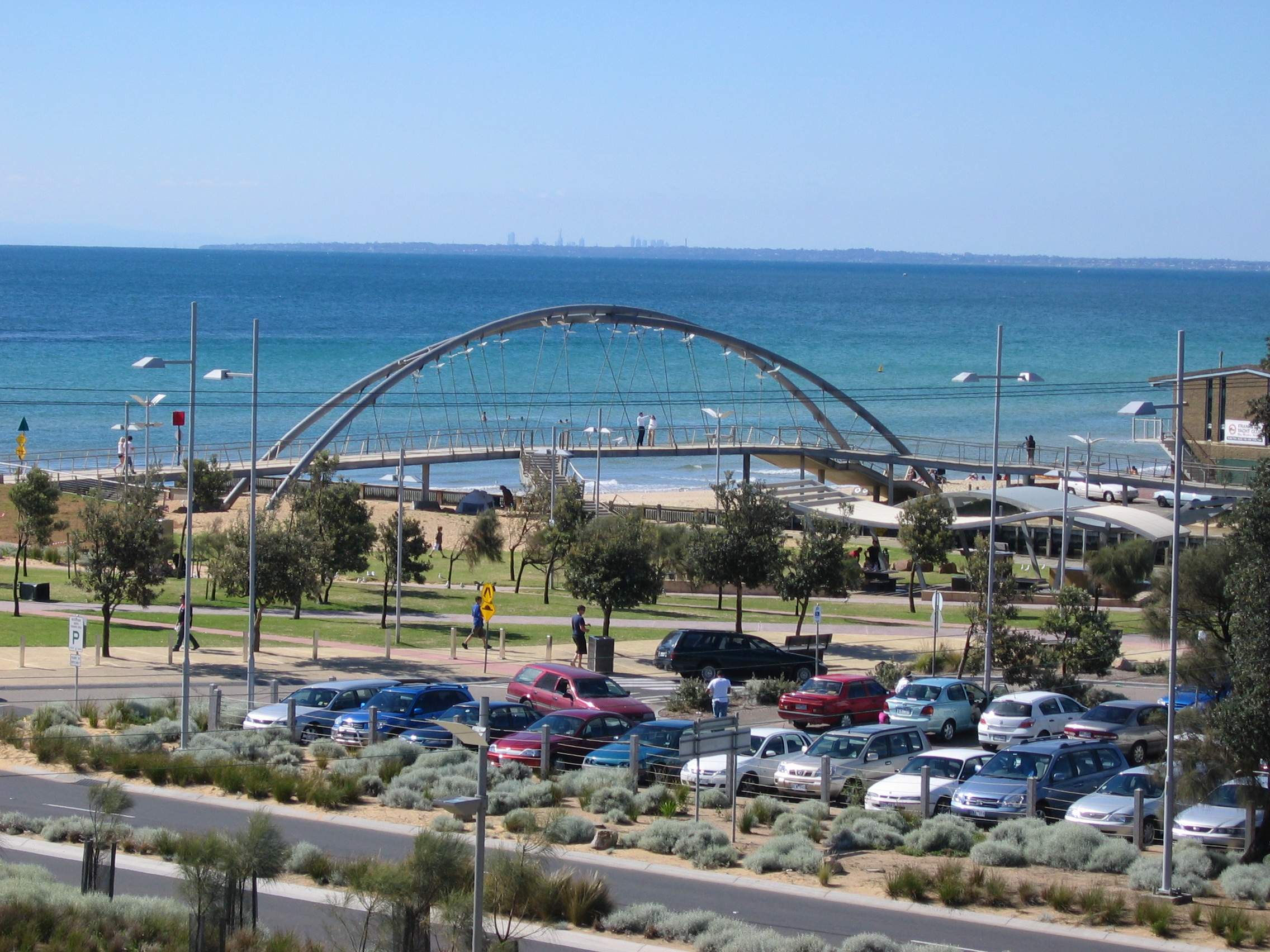 Landmark Bridge on the Frankston Waterfront, with view to the City of Melbourne.